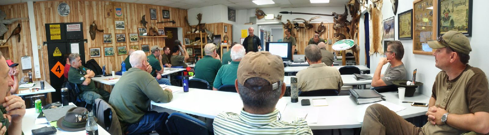 U.S. Forces hunting instructors complete recertification at Grafenwoehr, Baumholder - Volunteers representing garrisons Ansbach, Bavaria, Rheinland-Pfalz, Stuttgart and Wiesbaden, as well as Ramstein and Spangdahlem Air Bases successfully completed recertification courses earlier this month in Germany. (Photo Credit: Army) "SEMBACH, Germany -- During training sessions held at Grafenwoehr and Baumholder earlier this month, 18 volunteer hunting instructors, including U.S. servicemembers and civilians, earned their recertification to serve as chief instructors for U.S. Forces hunting courses in Germany. Additionally, 12 other volunteers trained as support instructors for U.S. Forces hunting courses in Germany. Volunteers representing garrisons Ansbach, Bavaria, Rheinland-Pfalz, Stuttgart and Wiesbaden, as well as Ramstein and Spangdahlem Air Bases successfully completed the courses. "This recertification enables the U.S. Forces to continue conducting hunter training and certification within each represented garrison and air base," said Rafael Wunsch, IMCOM-Europe program manager for U.S. Forces Hunting, Fishing, and Sport Shooting in Germany."